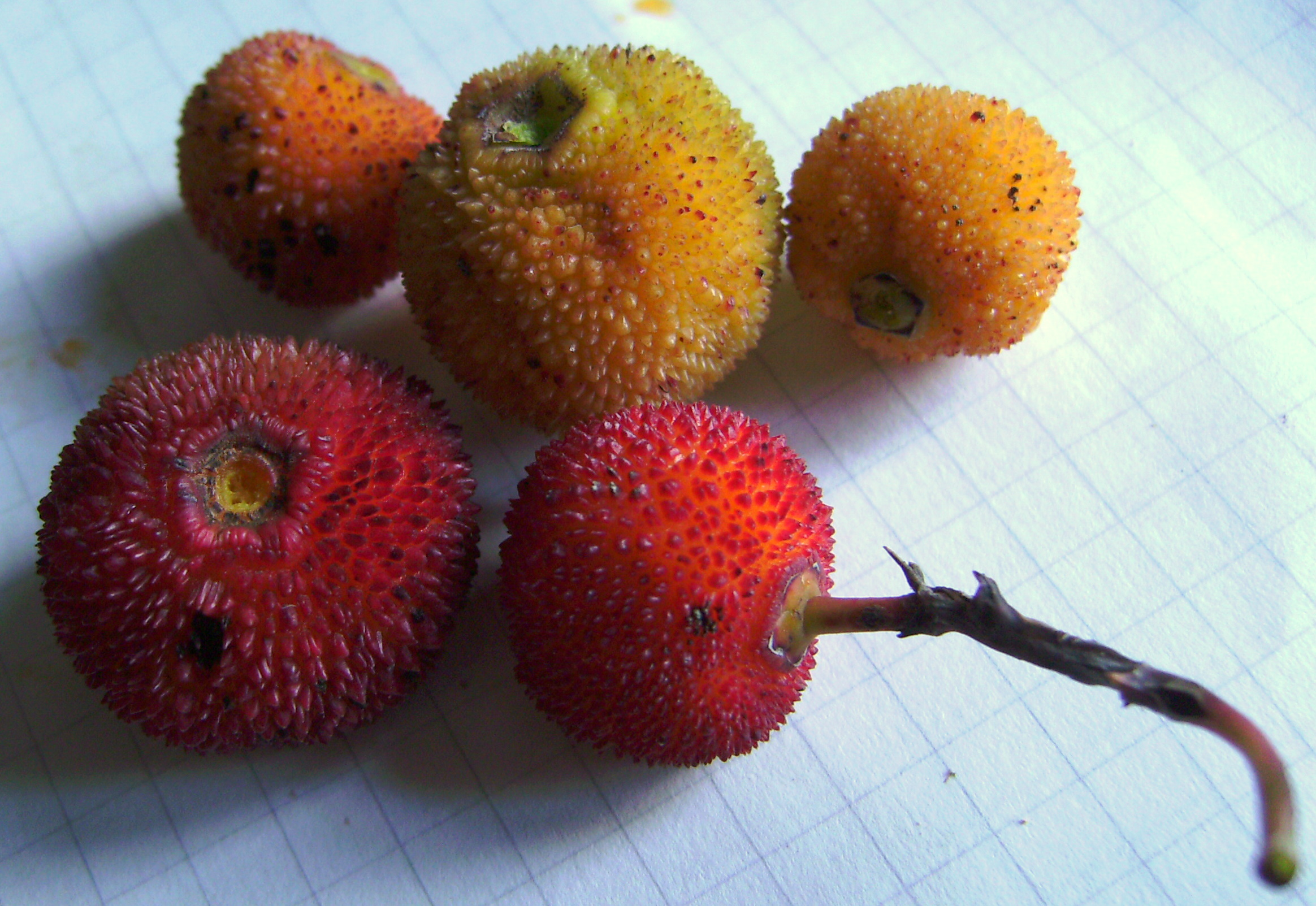 Some arbutus unedo fruits, the yellow ones still not complety rippen, Castelltallat, Catalonia